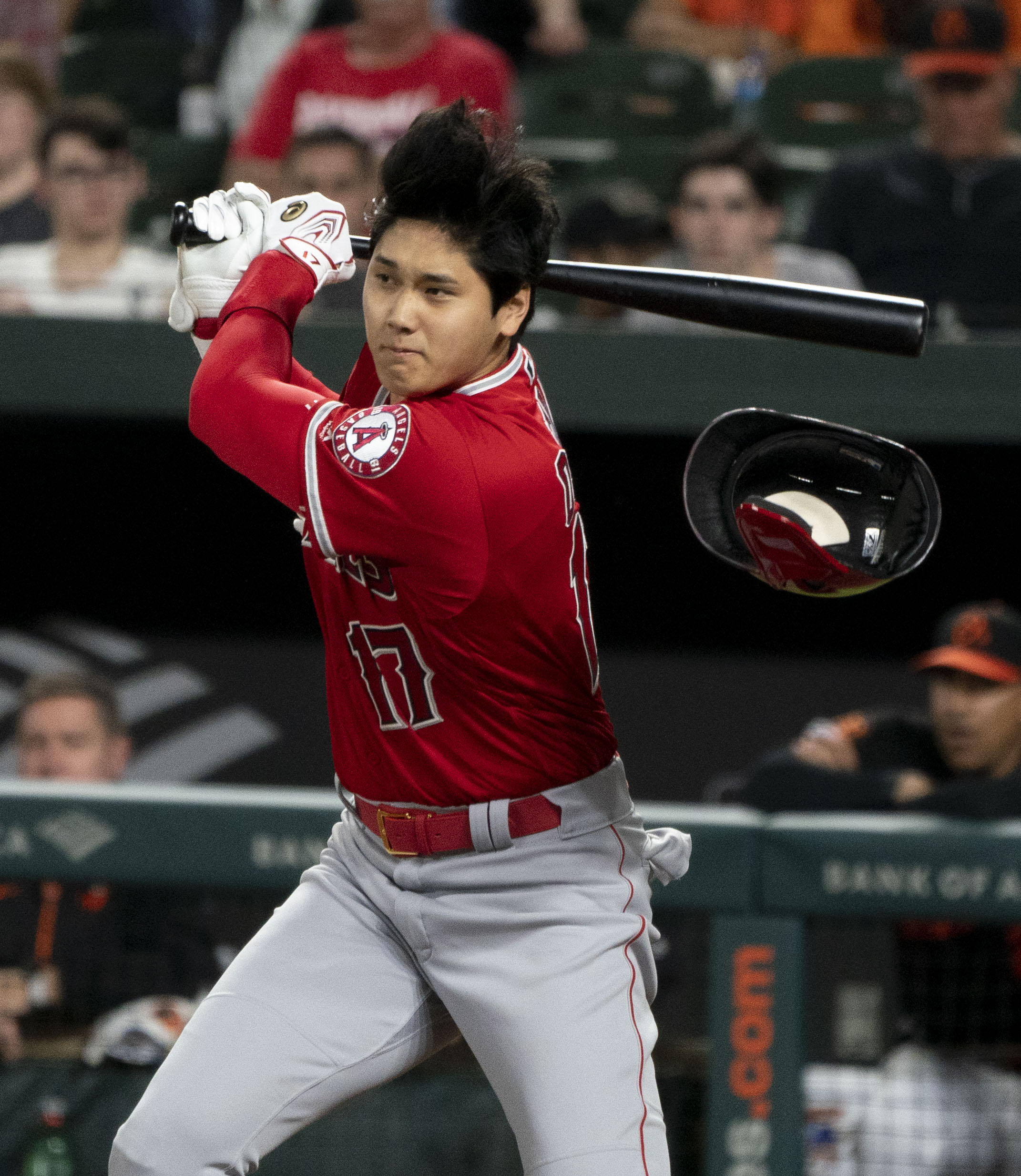 Shohei Ohtani of the Los Angeles Angels during a game against the Baltimore Orioles at Oriole Park at Camden Yards on May 10, 2019 in Baltimore, Maryland.